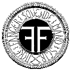 Reproduction of the emblem of the Danish association "The voluntary taxation for the benefit of the Danish Defence"